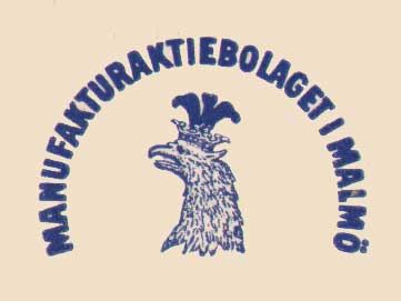 Logotype for Swedish Cotton Mill Manufaktur AB in Malmo